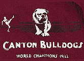 Logo of the Canton Bulldogs, a defunct American football team.